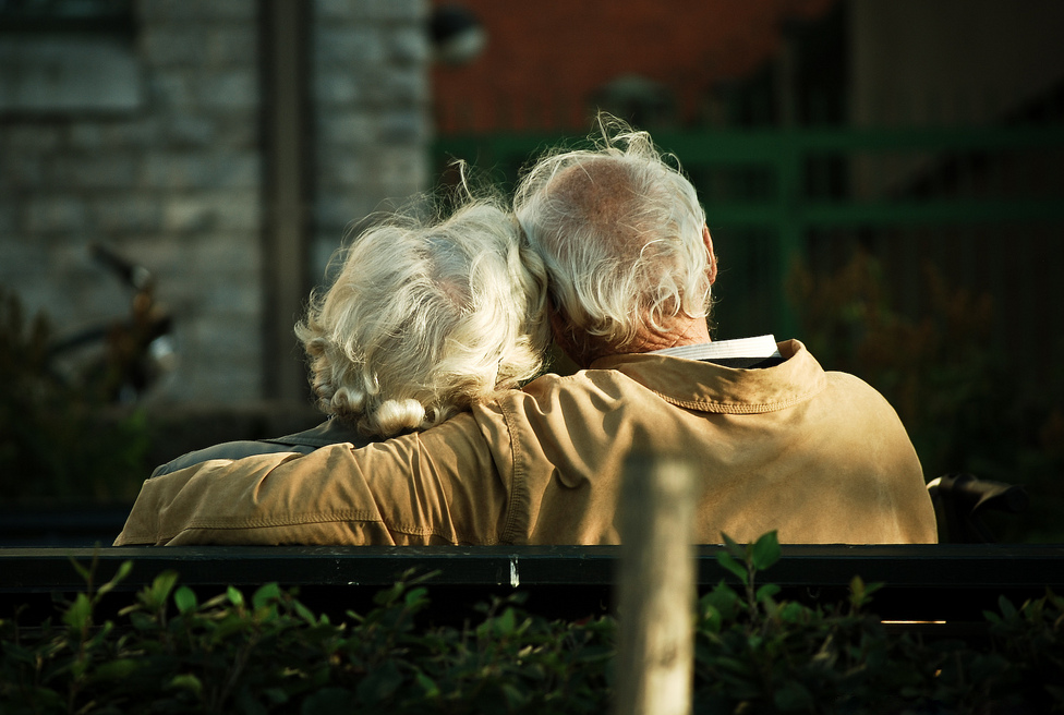 I found this too cute to miss, a moment of love in a hectic world! Candid shot with 5 seconds to react, only one chance as they heard my noisy shutter!